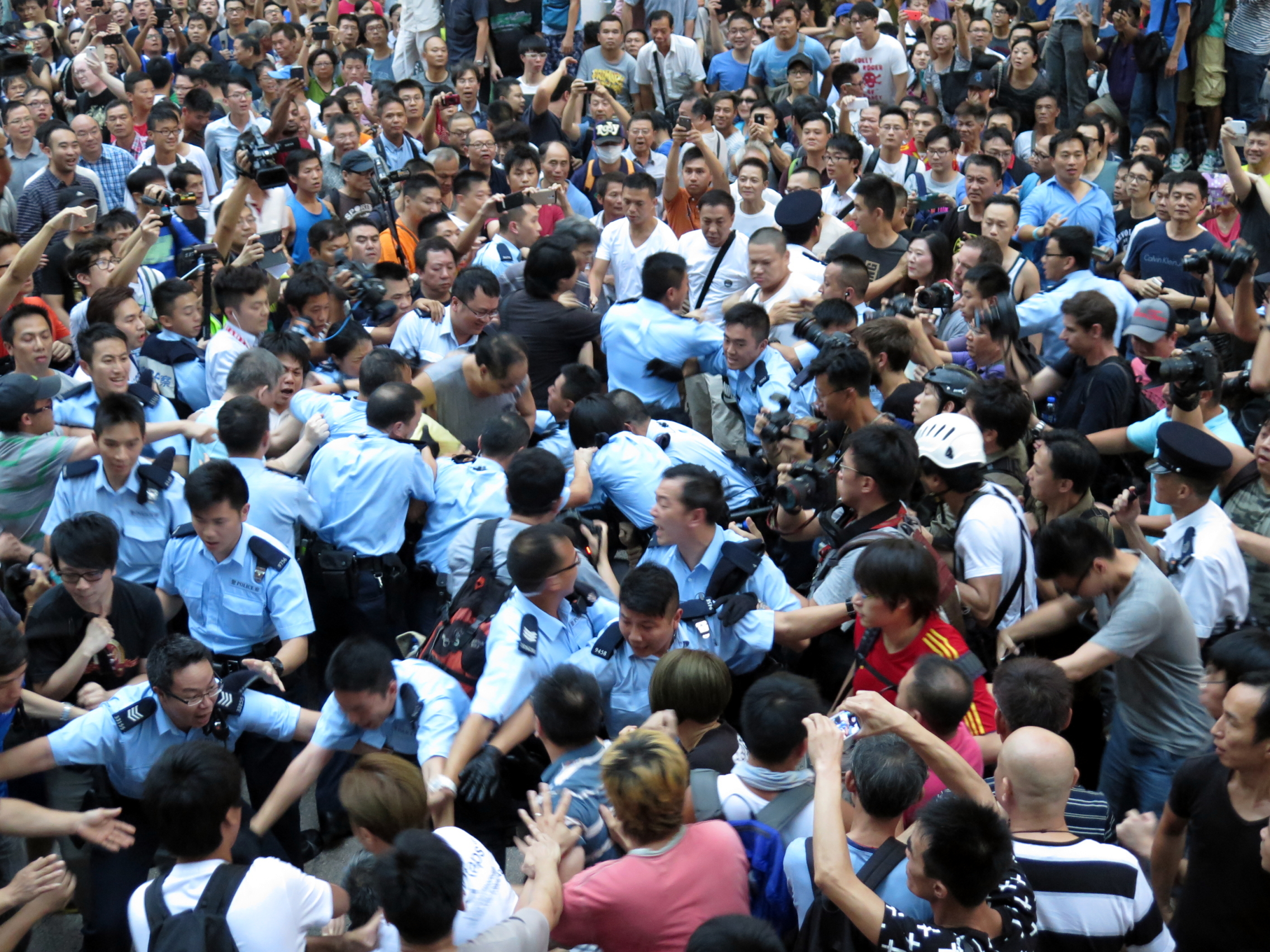 Umbrella Revolution Conflict in Mong Kok